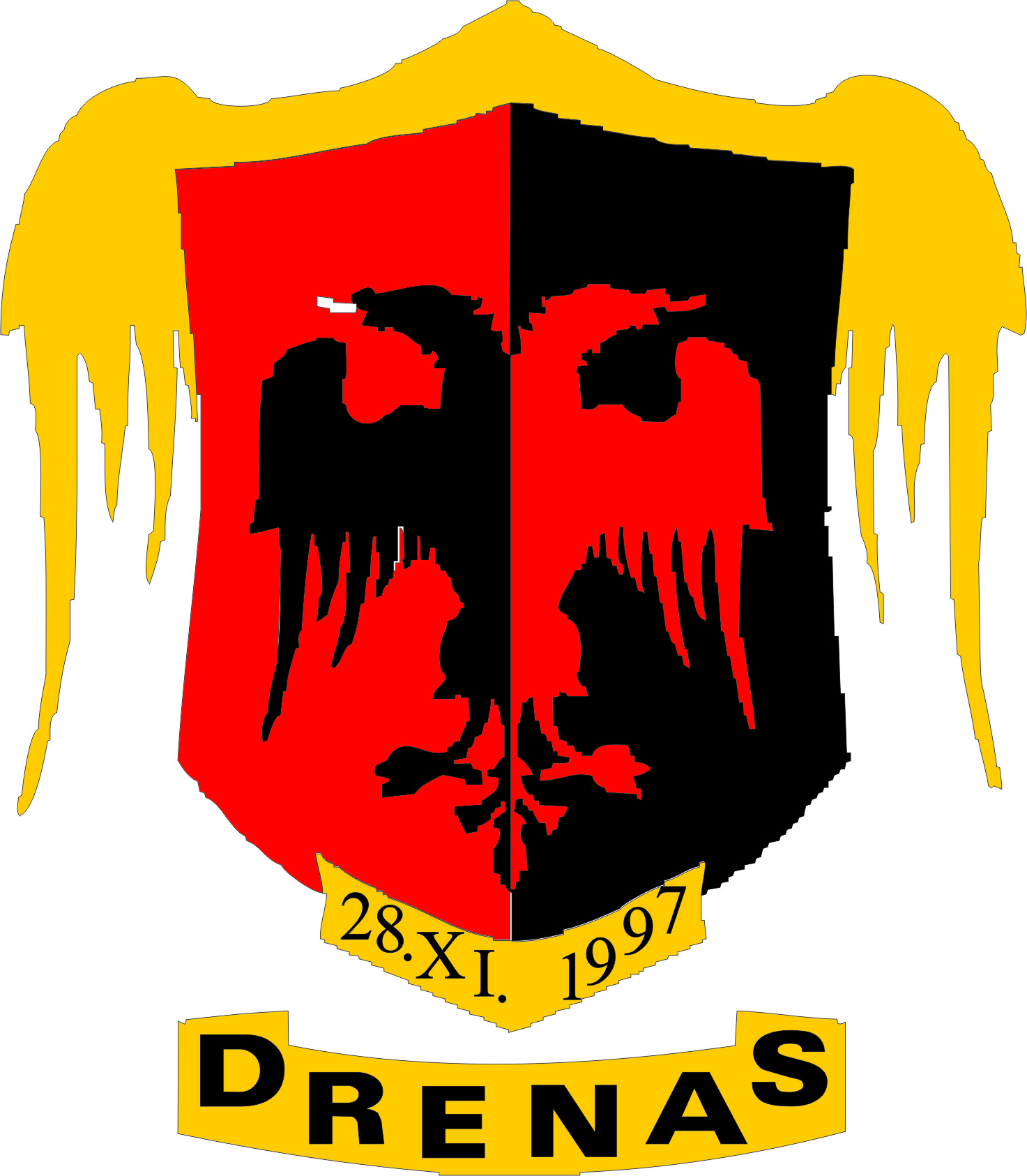 Coat of arms of the municipality of Gllogoc